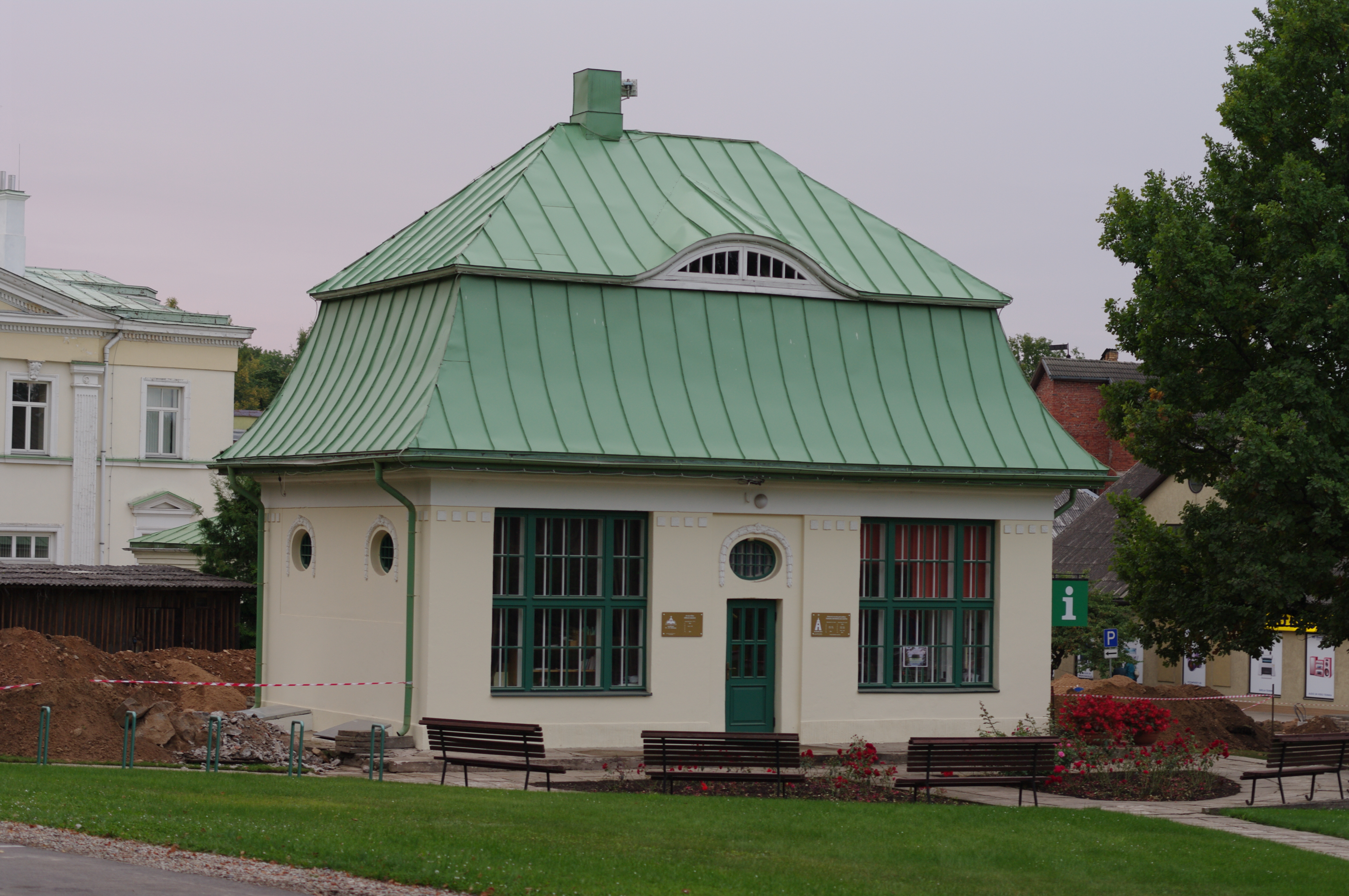 This photo was taken during a Wikiexpedition set up by Wikimedia Eesti.You can see all photographs in category WMEE-LV2013.